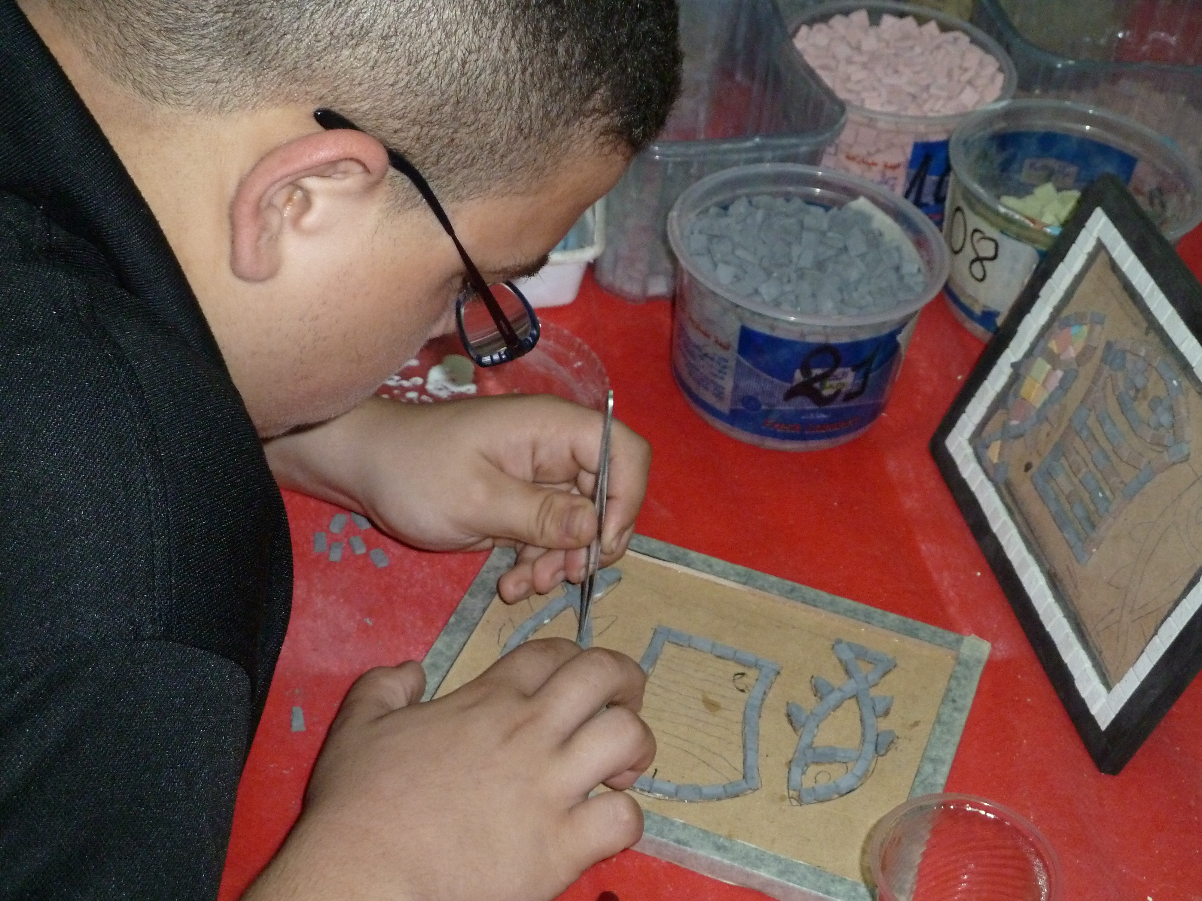 St. Gerasimos Monastery, Deir Hajla